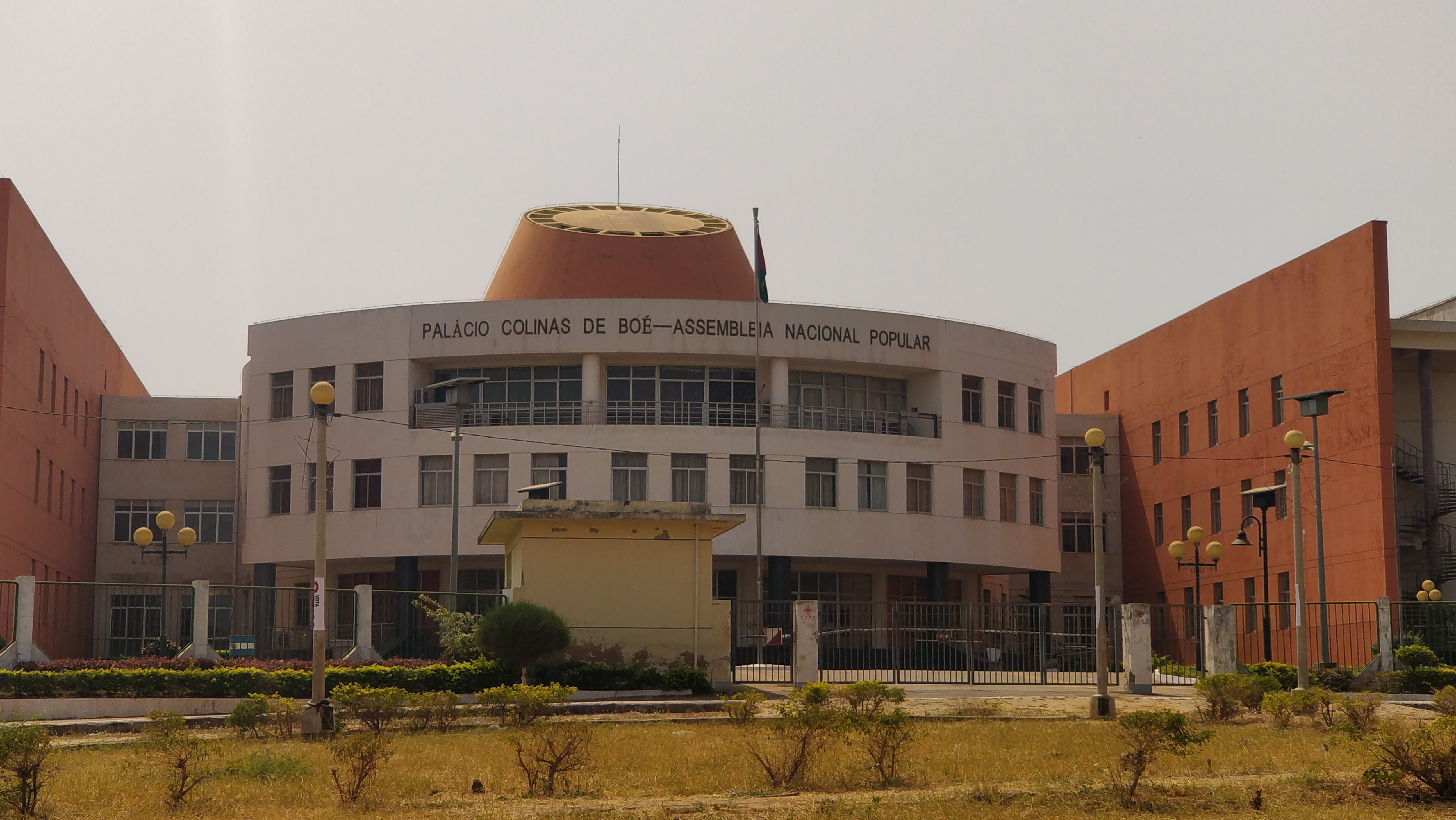 seat of the National Assembly of Guinea-Bissau called Palácio Colina de Boé; Bissau, Guinea-Bissau